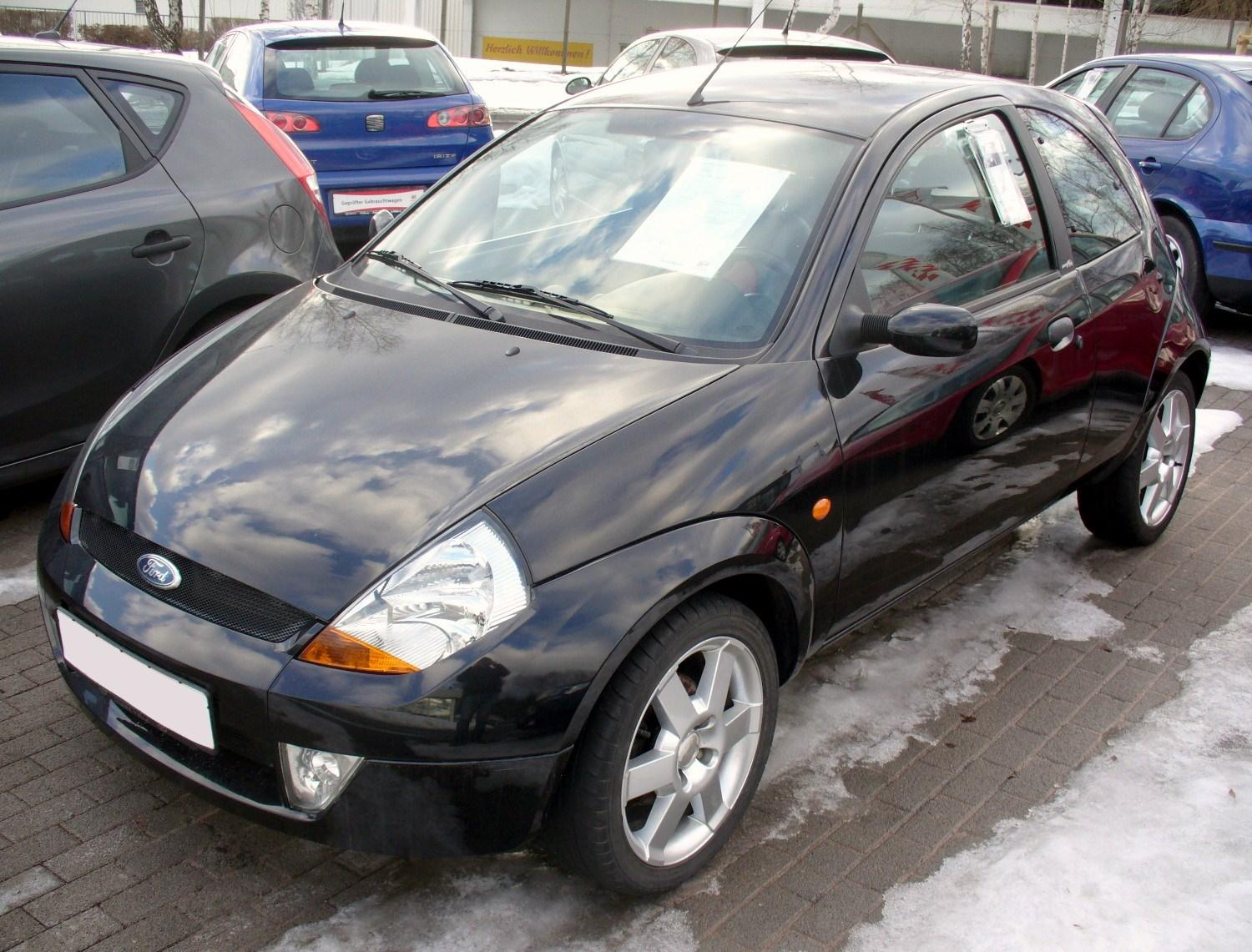 Ford SportKa